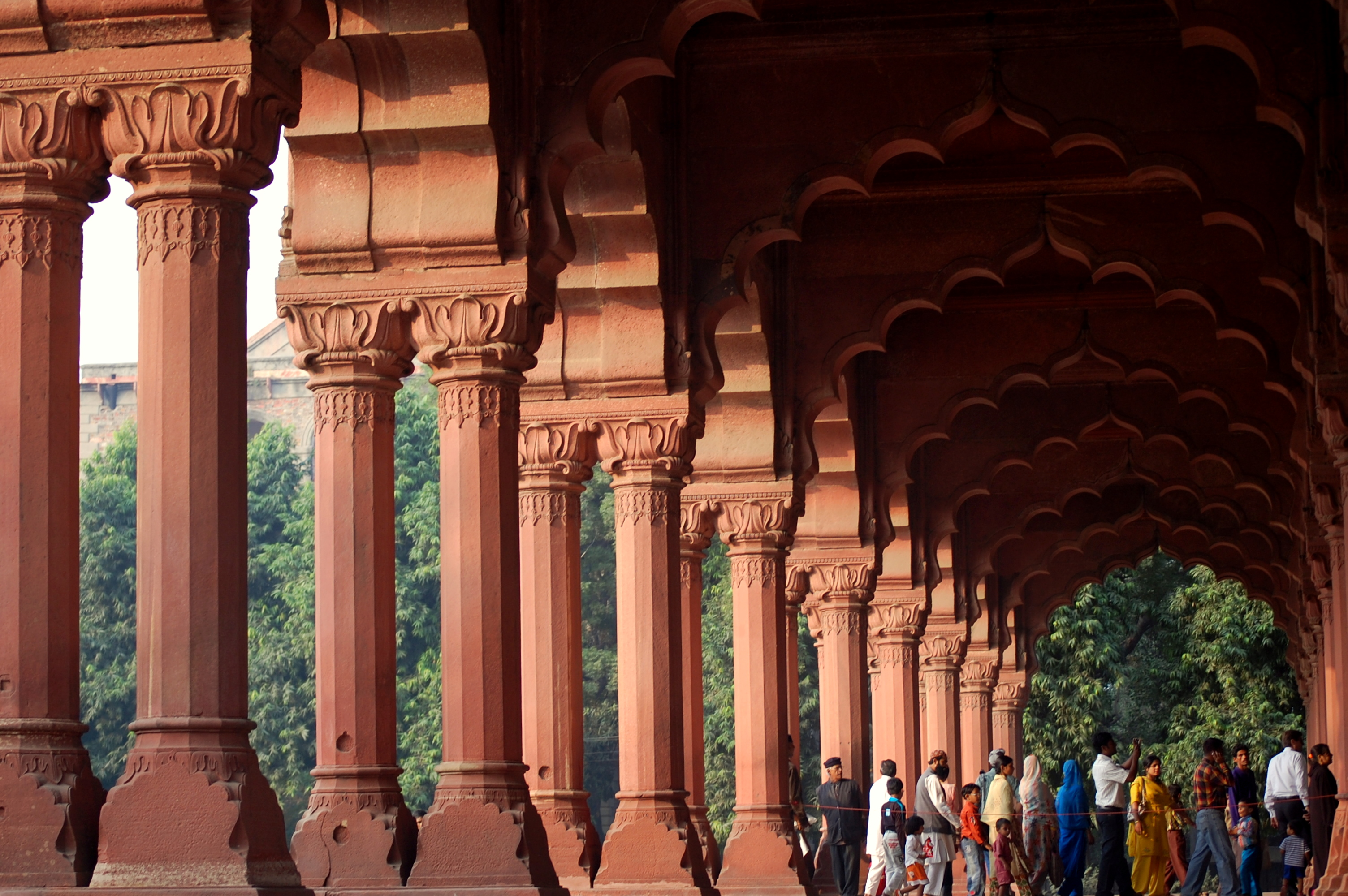 Inside Diwan-i-Aam, Lal Quila, Delhi.